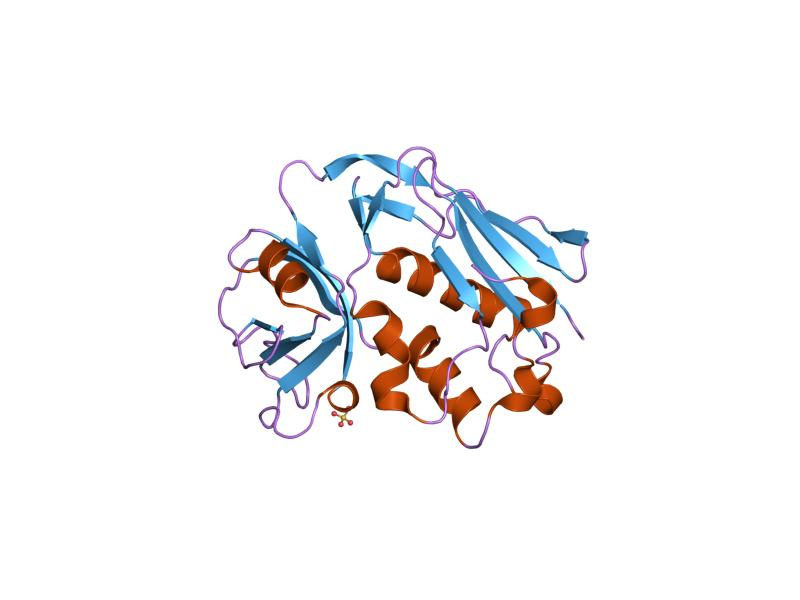 Cartoon representation of the molecular structure of protein registered with 1dyq code.